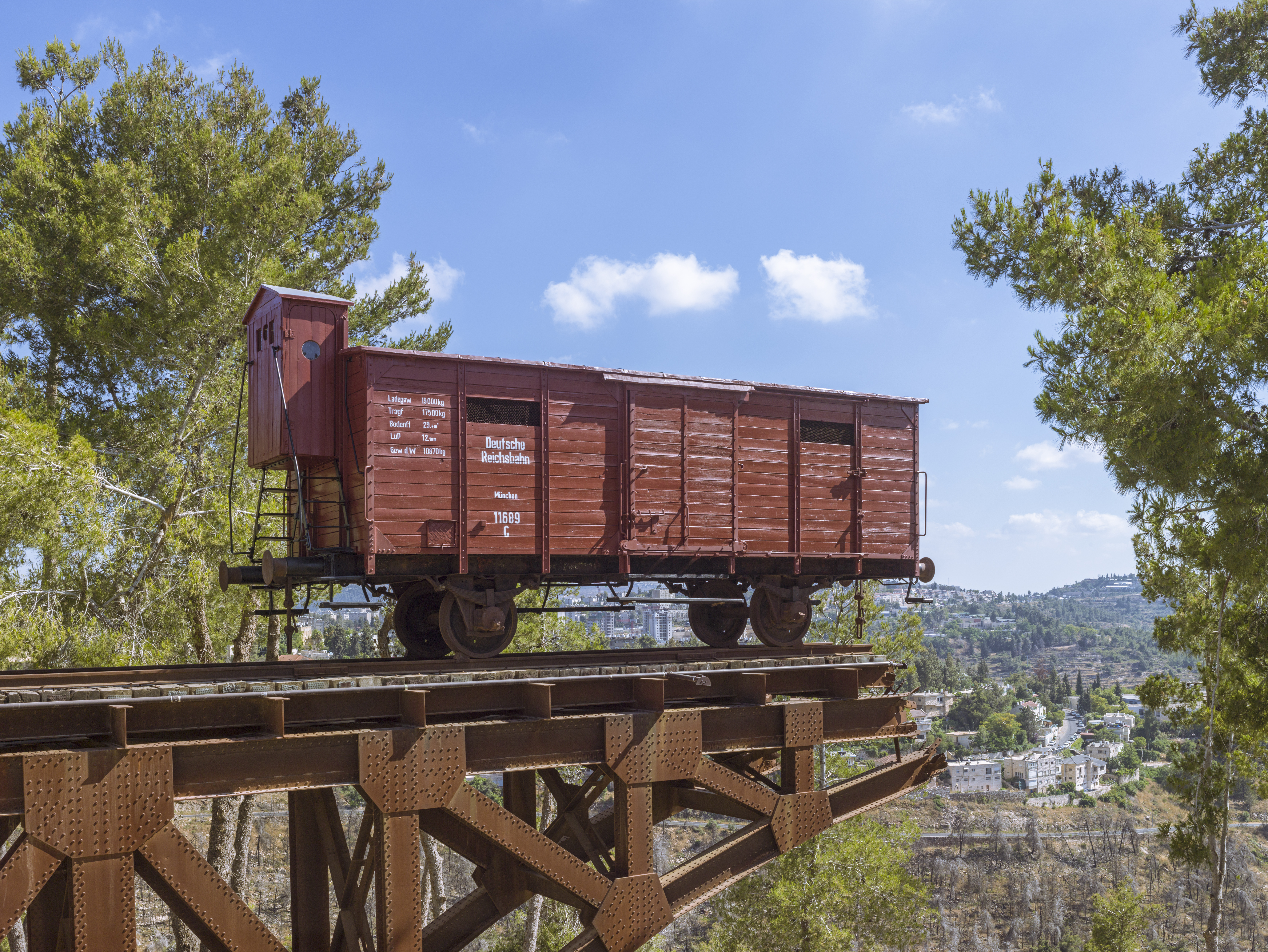 The wagon (or cattle car) monument at Yad Vashem in Jerusalem. Designed by Moshe Safdie and also known as the Memorial to the Deportees.